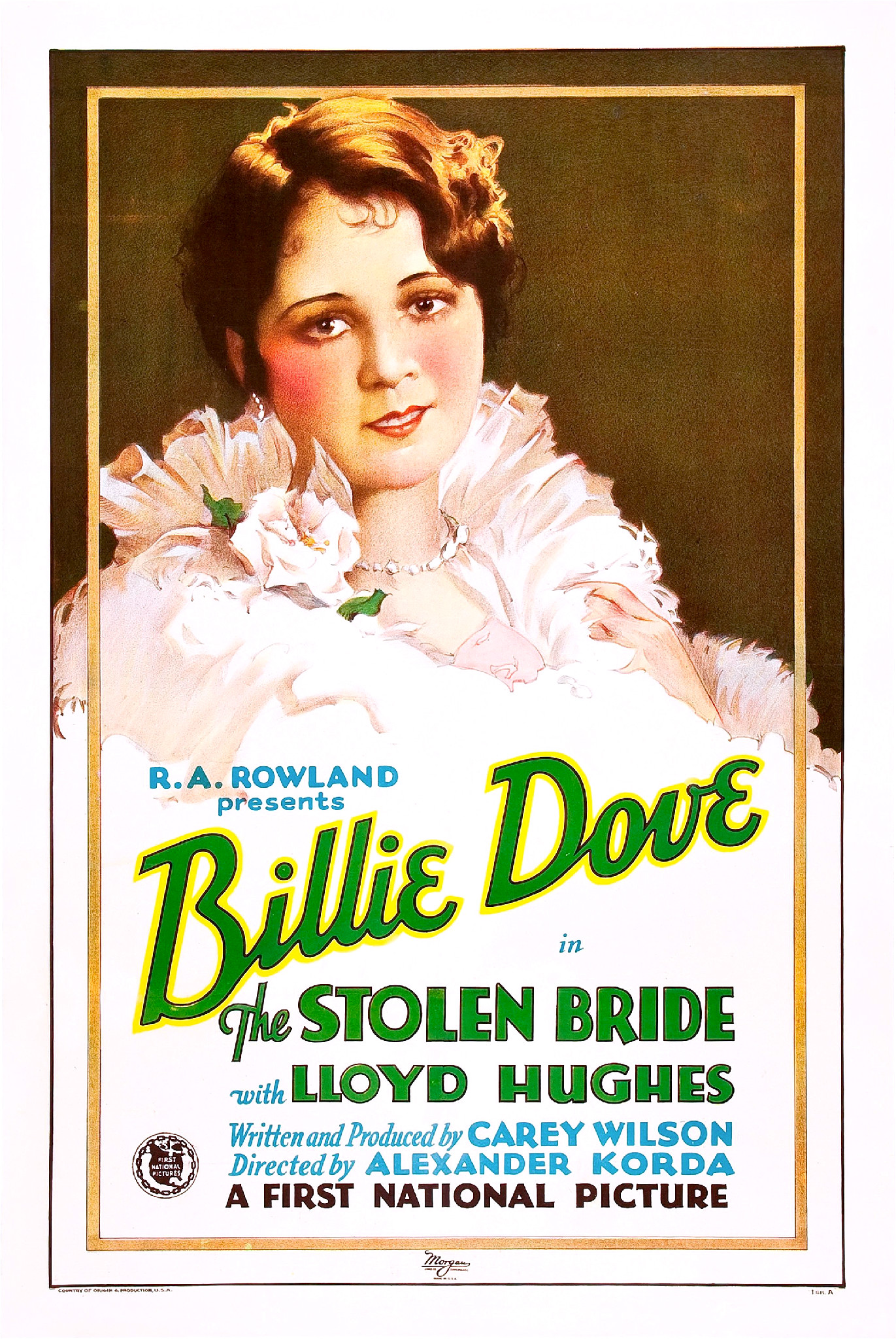 Poster for the 1927 film The Stolen Bride. There are no copyright marks on the item. At lower left is Country of origin & production USA. At mid bottom is the logo of the Morgan Litho Co. Cleveland--they printed the poster. At lower right is 1 SH-A-seems to refer to this being a one-sheet poster and version A.